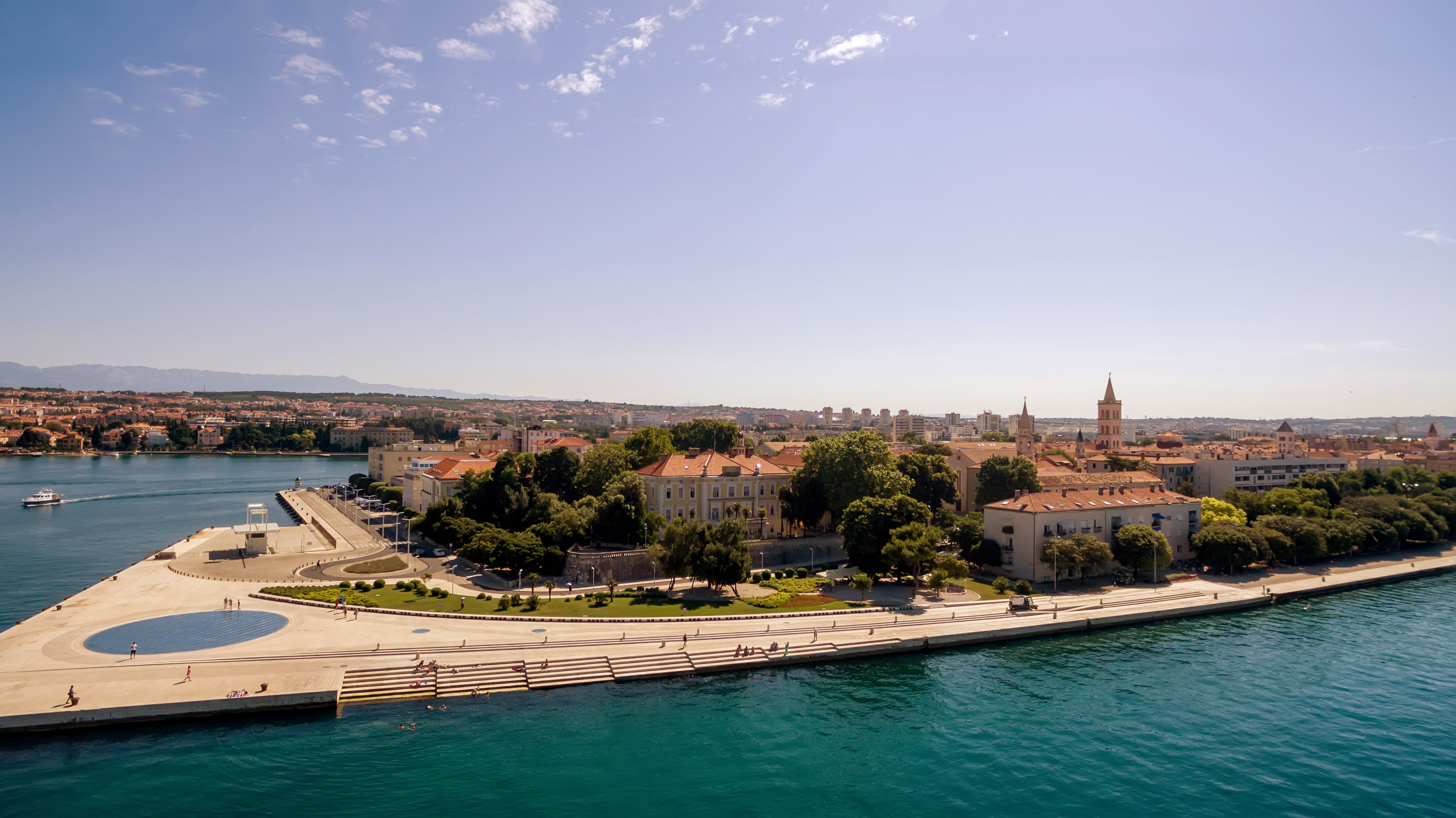 Sea Organ and The Greeting to the Sun in Zadar, Croatia: artistic installations which utilise the power of nature to create beautiful sounds and sights